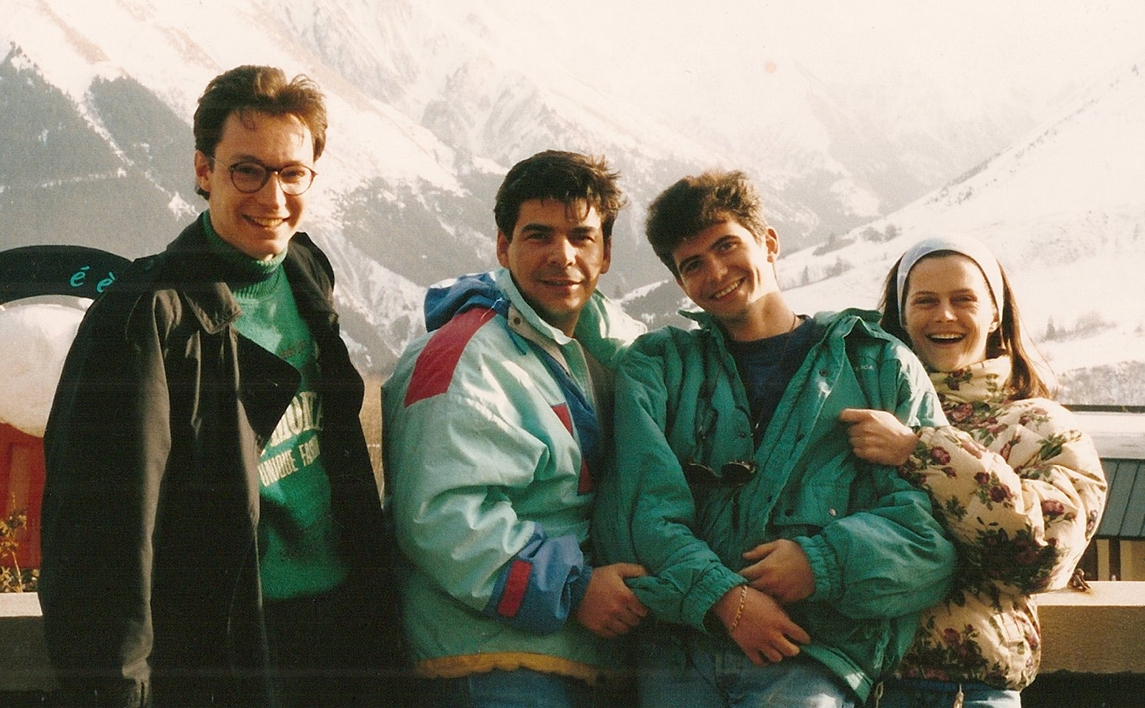 Adeline Software International co-funders, from the left to the right : Laurent Salmeron, Didier Chanfray, Frédérick Raynal and Yaël Barroz.